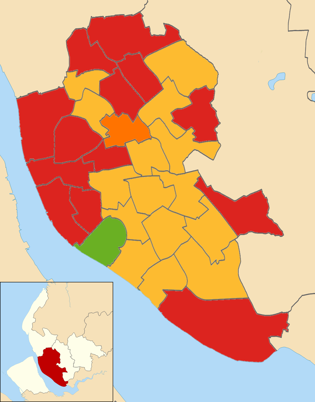 Results of the 2007 local elections in Liverpool Colours: Labour Liberal Democrat Liberal Party Green party of England and Wales